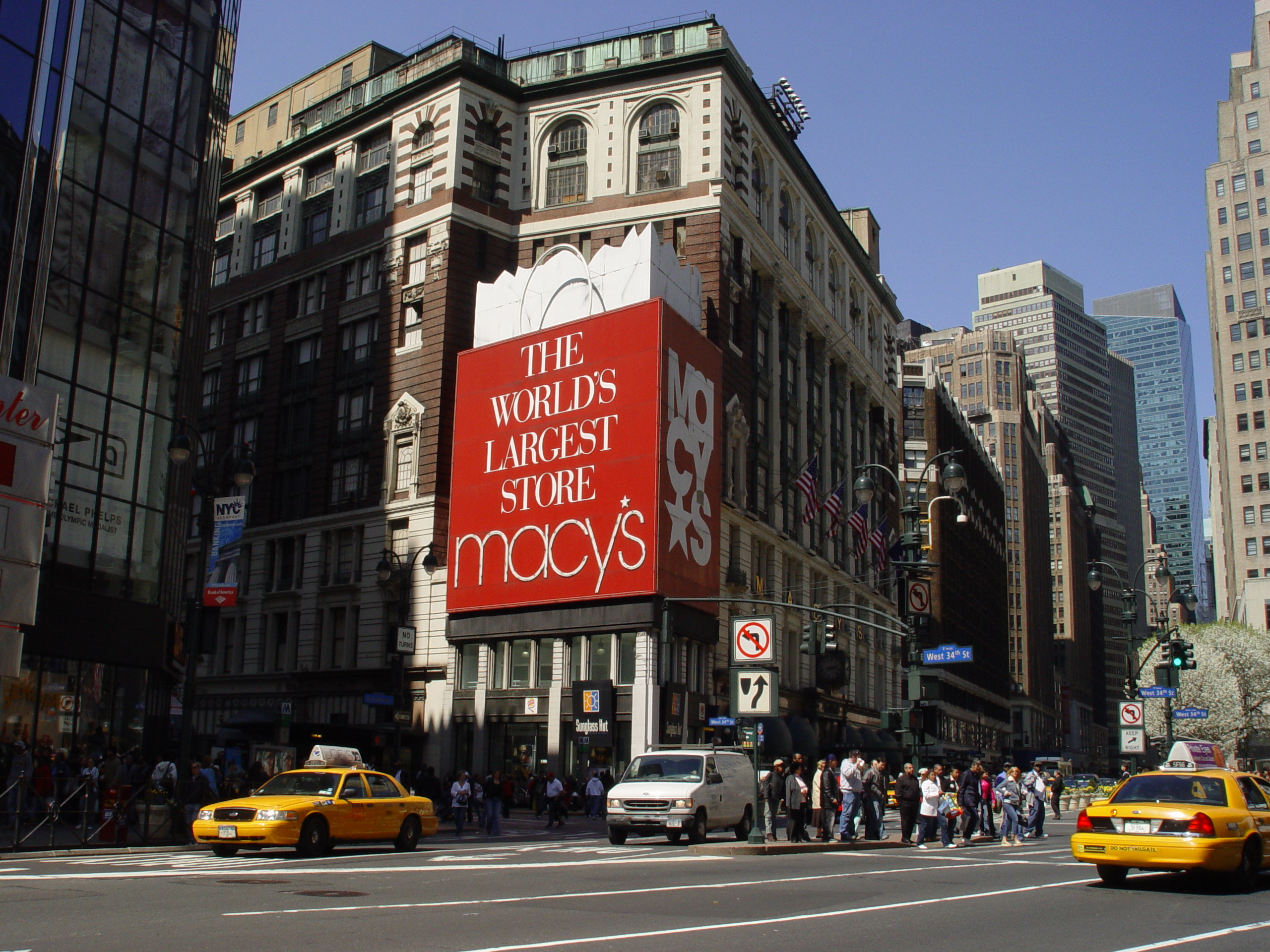 Fotografiert von Martin Dürrschnabel Macys in New York City.